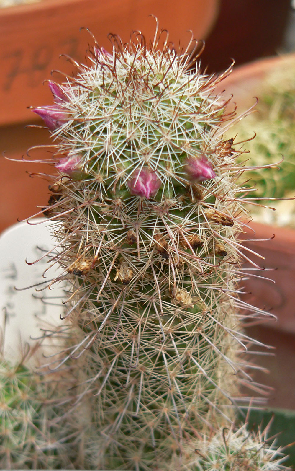 Mammillaria mazatlanensis at the University of California Botanical Garden, Berkeley, California